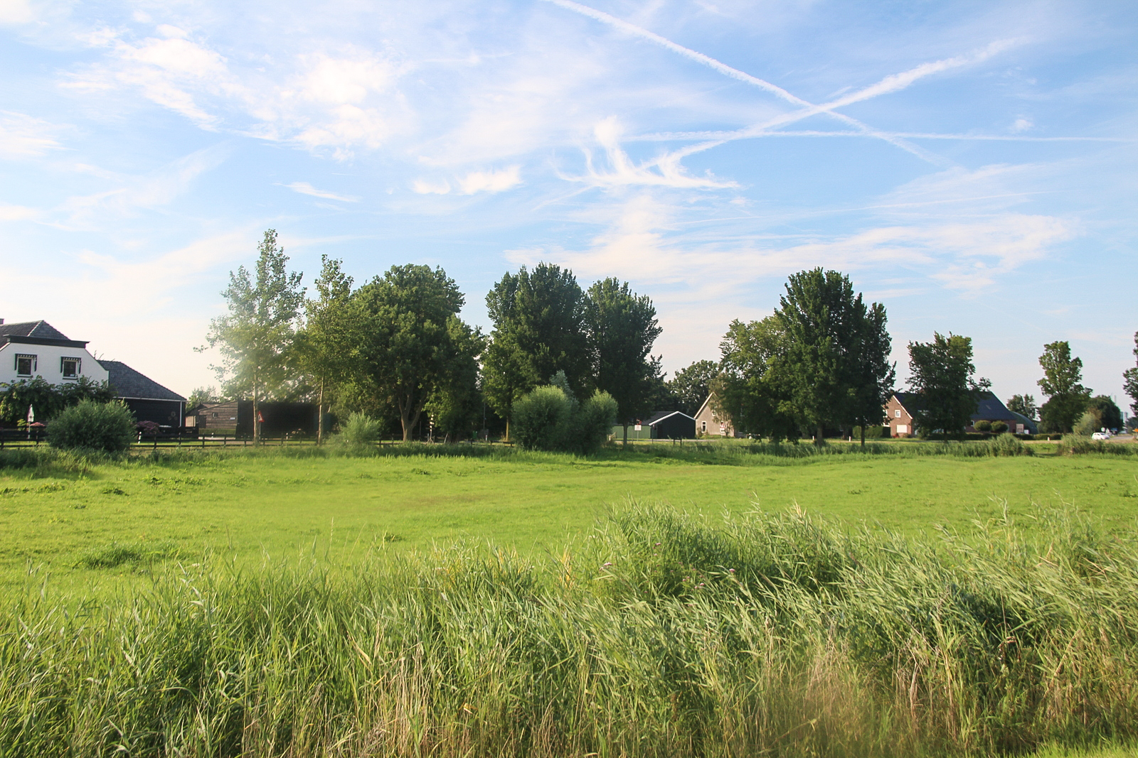 Biert very small place in Holland